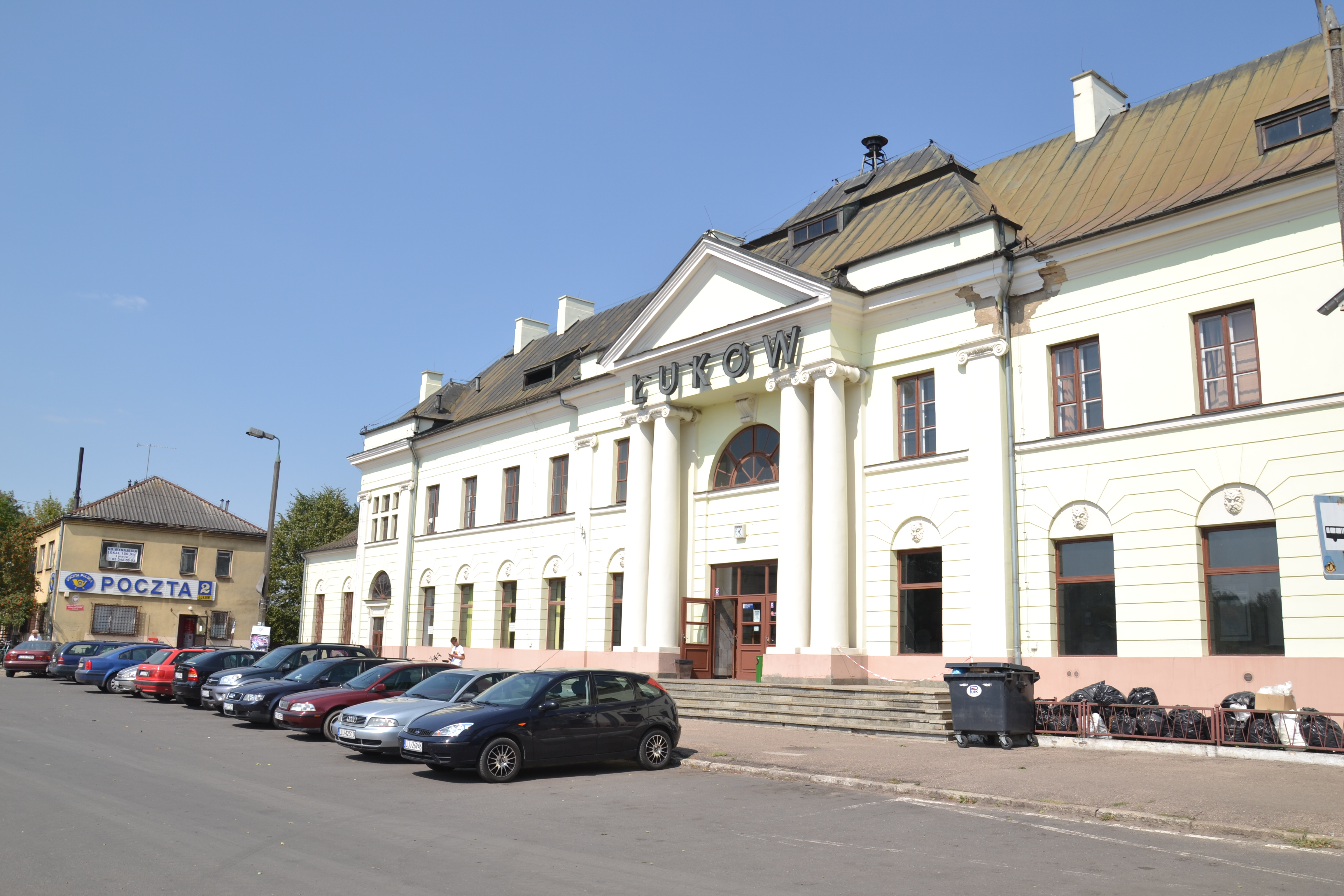 Widok dworca w Łukowie od strony miasta This photo was taken during Railway Wikiexpedition 2015 set up by Wikimedia Polska Association in cooperation with Fundacja Grupy PKP. You can see all photographs in category Wikiekspedycja kolejowa 2015.